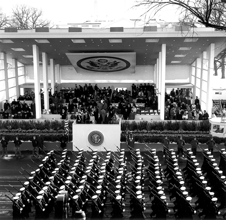 Inaugural parade for President John F. Kennedy. Military units pass the reviewing stand.